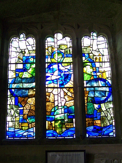 The Dunston Memorial Window The construction of the window is of painted stained and acid etched antique glass enclosed in lead calmes. This, the traditional technique of window making was chosen to complement the architecture of the church.